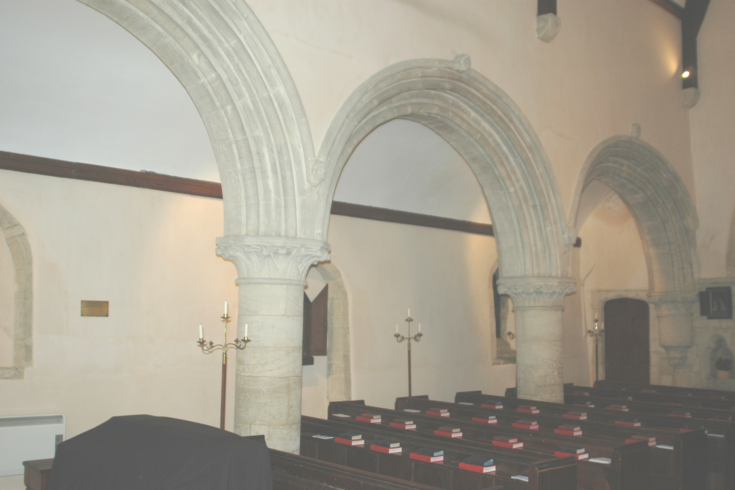 Church of England parish church of St Margaret, Little Faringdon, Oxfordshire: north arcade. PLEASE NOTE: "SouthArcade" in the file name is a mistake.